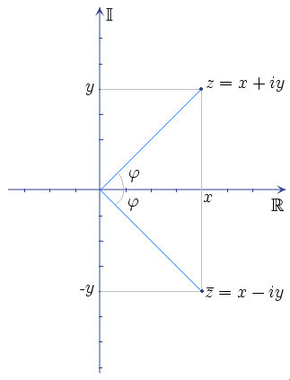 Own work